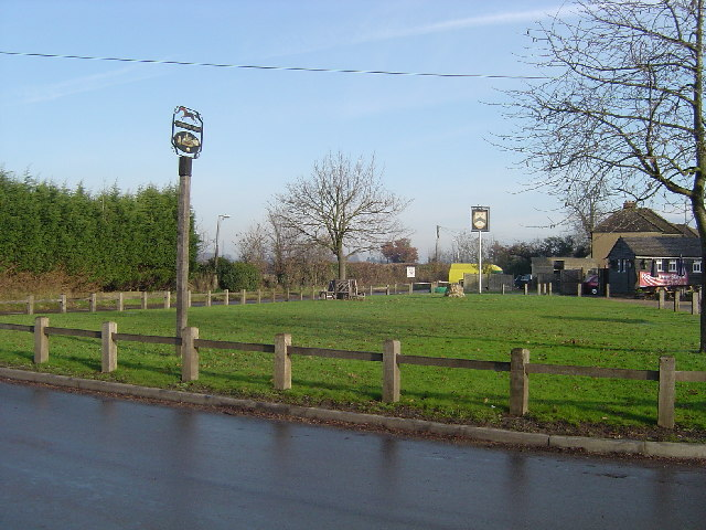 Patchetts Green. The village sign is the nearer of the two, the far one being for The Three Compasses Public House. View taken looking eastwards from Hilfield Lane towards Pegmire Lane.